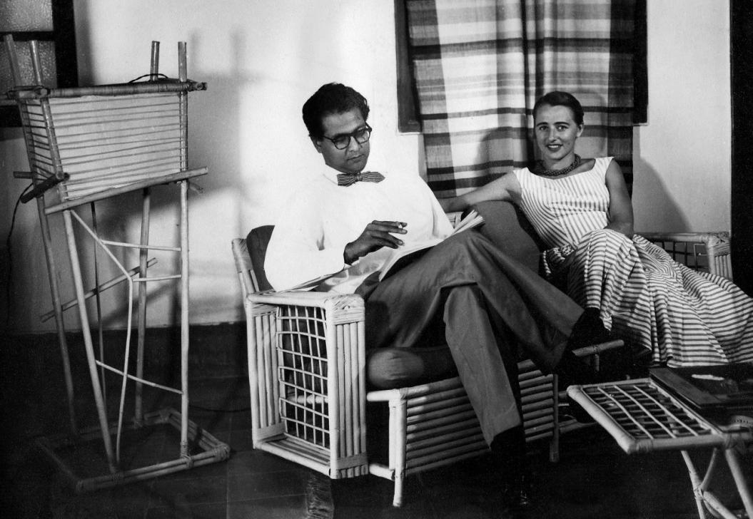 With wife Anne Marie in Karachi.